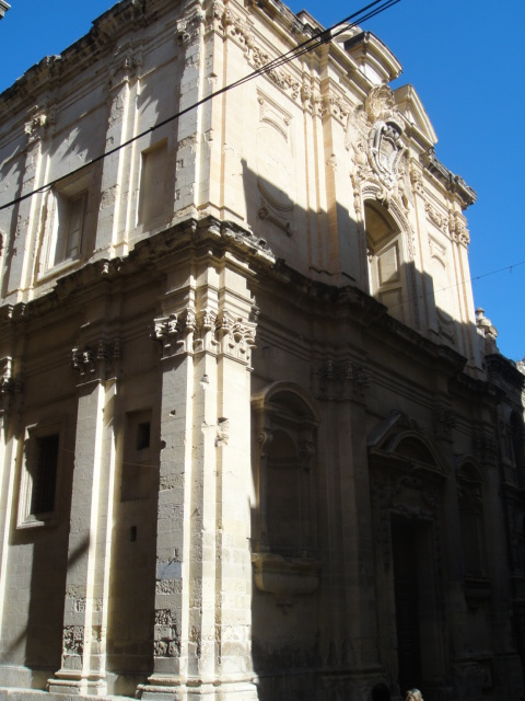 The church of St James Valletta Malta.